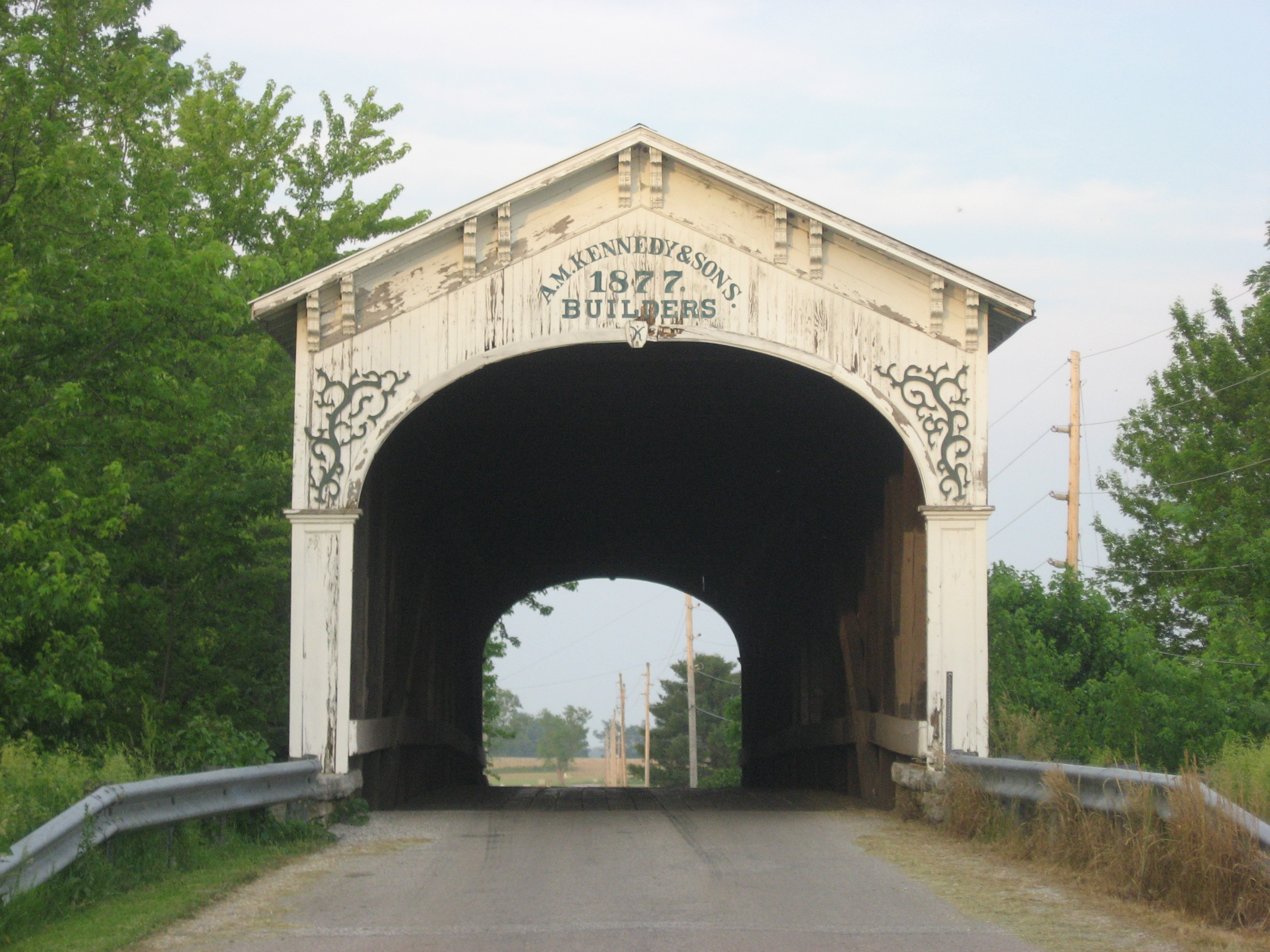 Western portal of the Smith Covered Bridge, which carries County Road 300N over the Flatrock River northeast of Rushville in Jackson Township, Rush County, Indiana, United States. Built in 1905, it is listed on the National Register of Historic Places.